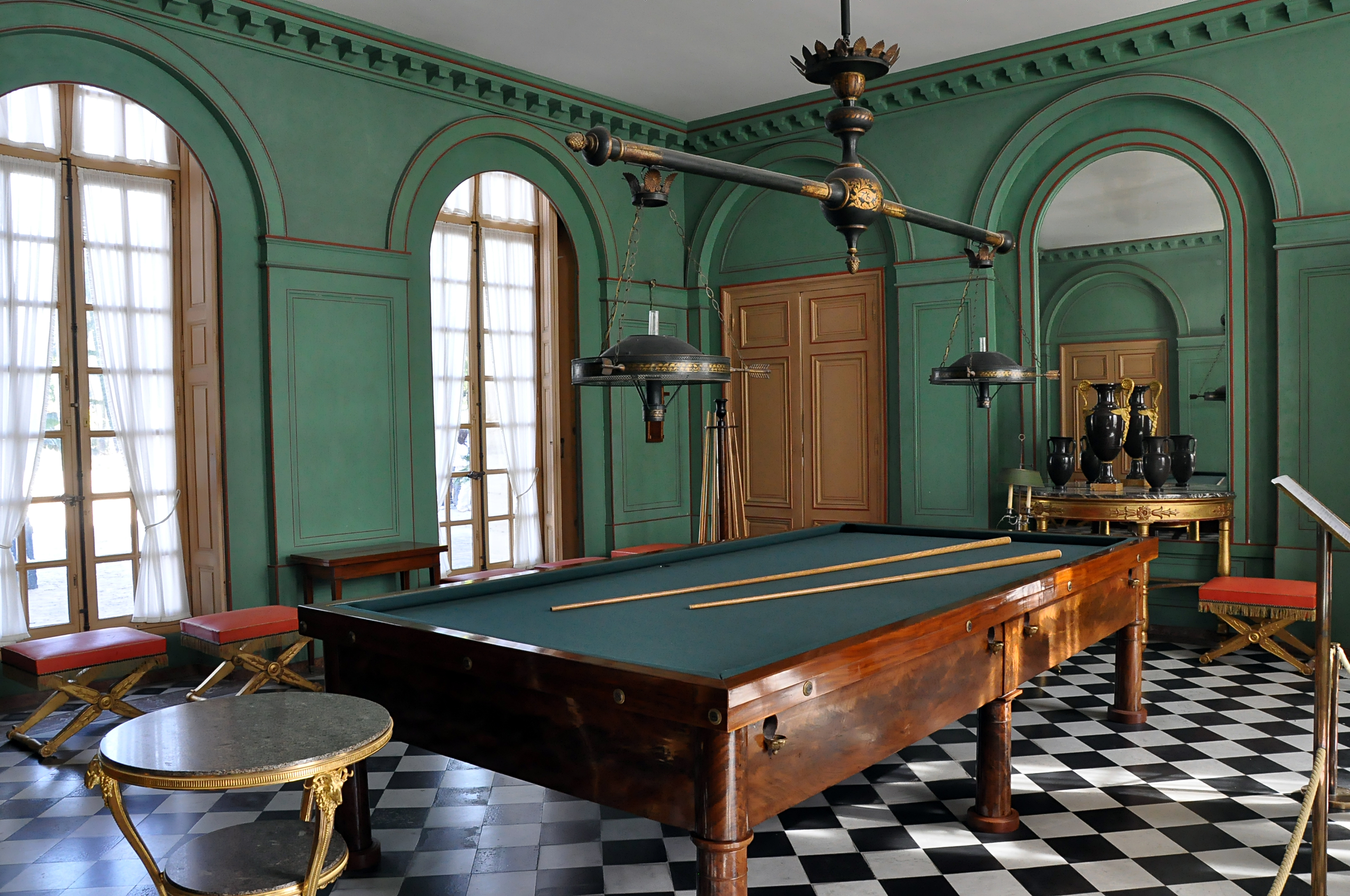 Billiard room in the Câteau de Malmaison in Rueil-Malmaison, France. Situated at the ground floor of the Château, this room was allocated to the billiard game since 1703. The current decoration is designed by Louis-Martin Berthault in 1812, with the sober furniture as at the time of Joséphine de Beauharnais.